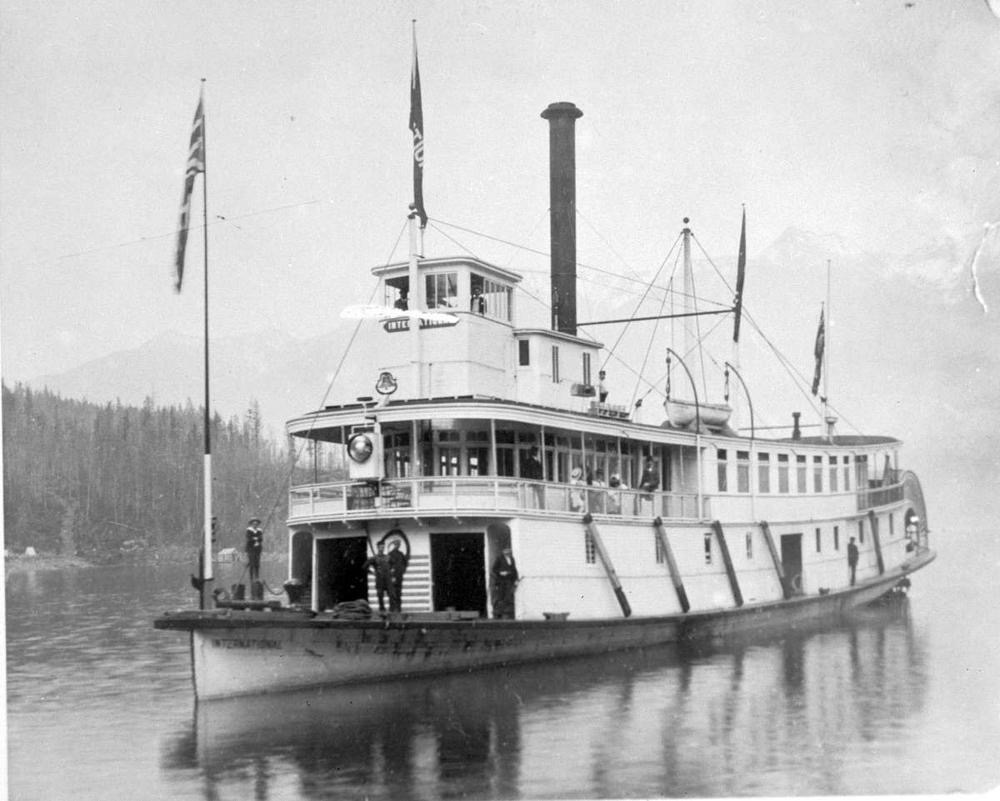 Lake steamer International at Kaslo Bay, on Kootenay Lake, some time between November 1896 and no later than 1909.